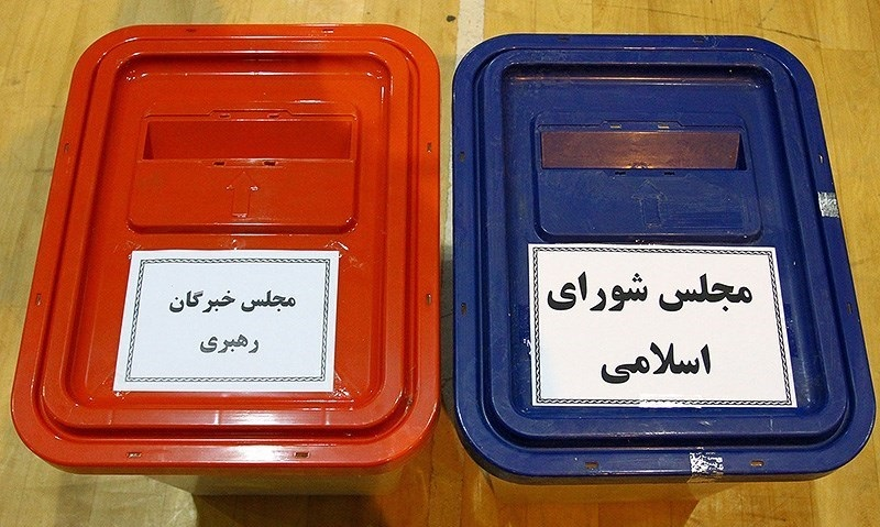 Ballot of Iranian 2016 elections